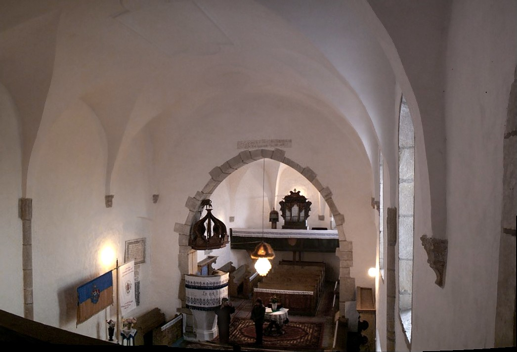 Inside view of Calvinist church in Şintereag (Somkerék).